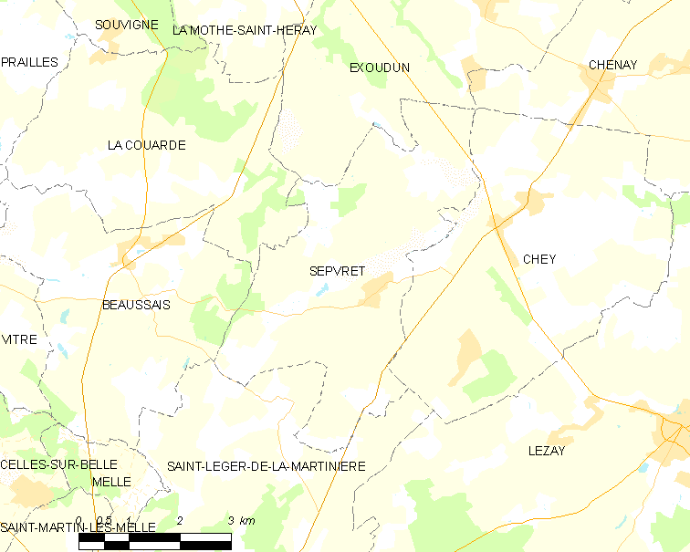 Map of French municipality Sepvret